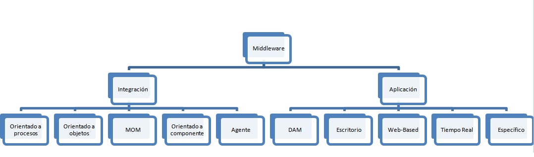 Imagen de clasifiacion de Middleware